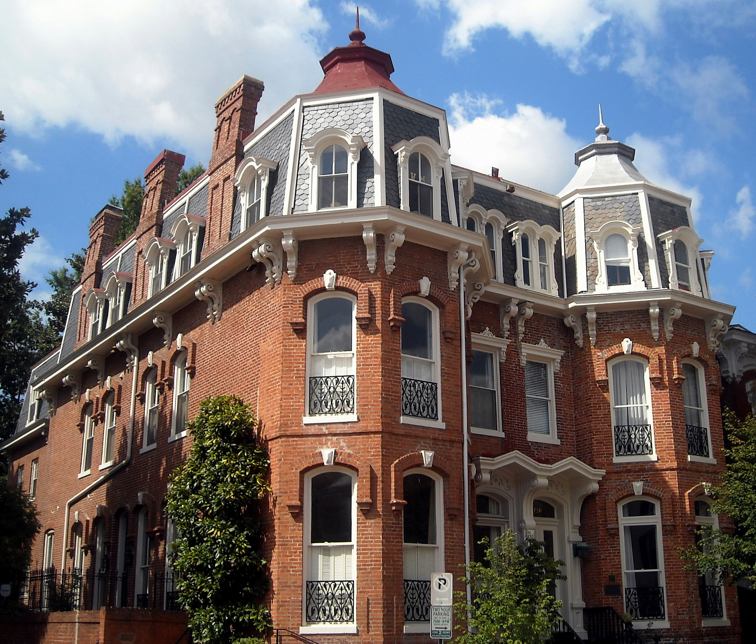 The Grafton Tyler Double House located at 1312 & 1314 30th Street, NW in the Georgetown neighborhood of Washington, D.C. Built in 1868, the Second Empire duplex is a contributing property to the Georgetown Historic District and valued at $5,601,610. From 1949 to 1950, Poet Laureate of the United States Elizabeth Bishop lived at the address (then known as Bertha Looker's Boardinghouse).